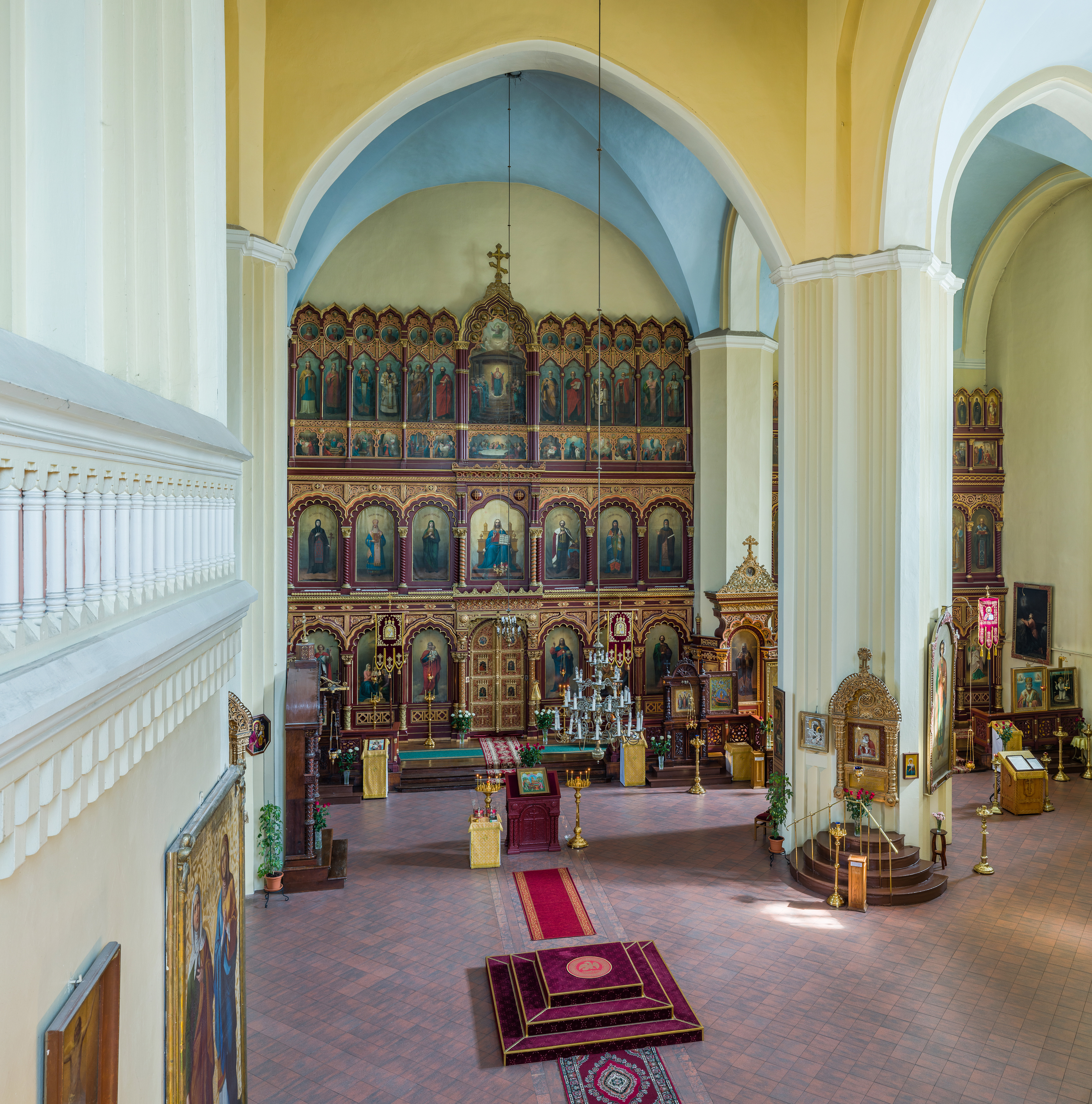 The interior of the Orthodox Cathedral of the Dormition of the Theotokos in Vilnius, Lithuania.